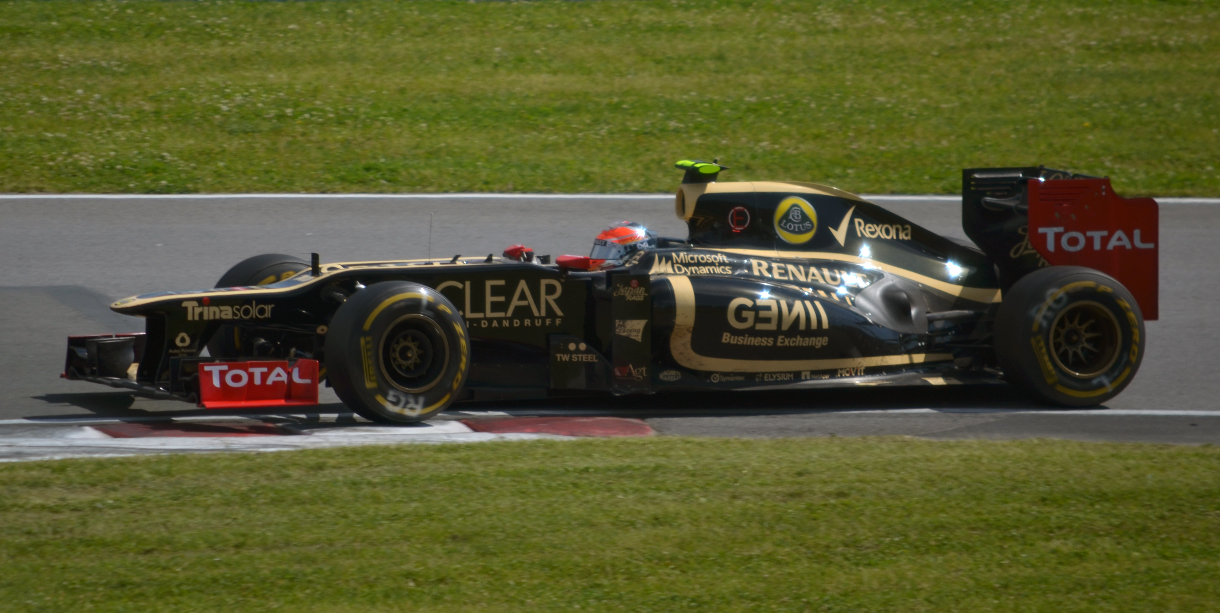 Romain Grosjean heads toward second place on the final lap of the 2012 Canadian Grand Prix at Circuit Gilles Villeneuve driving the Lotus - Renault E20.